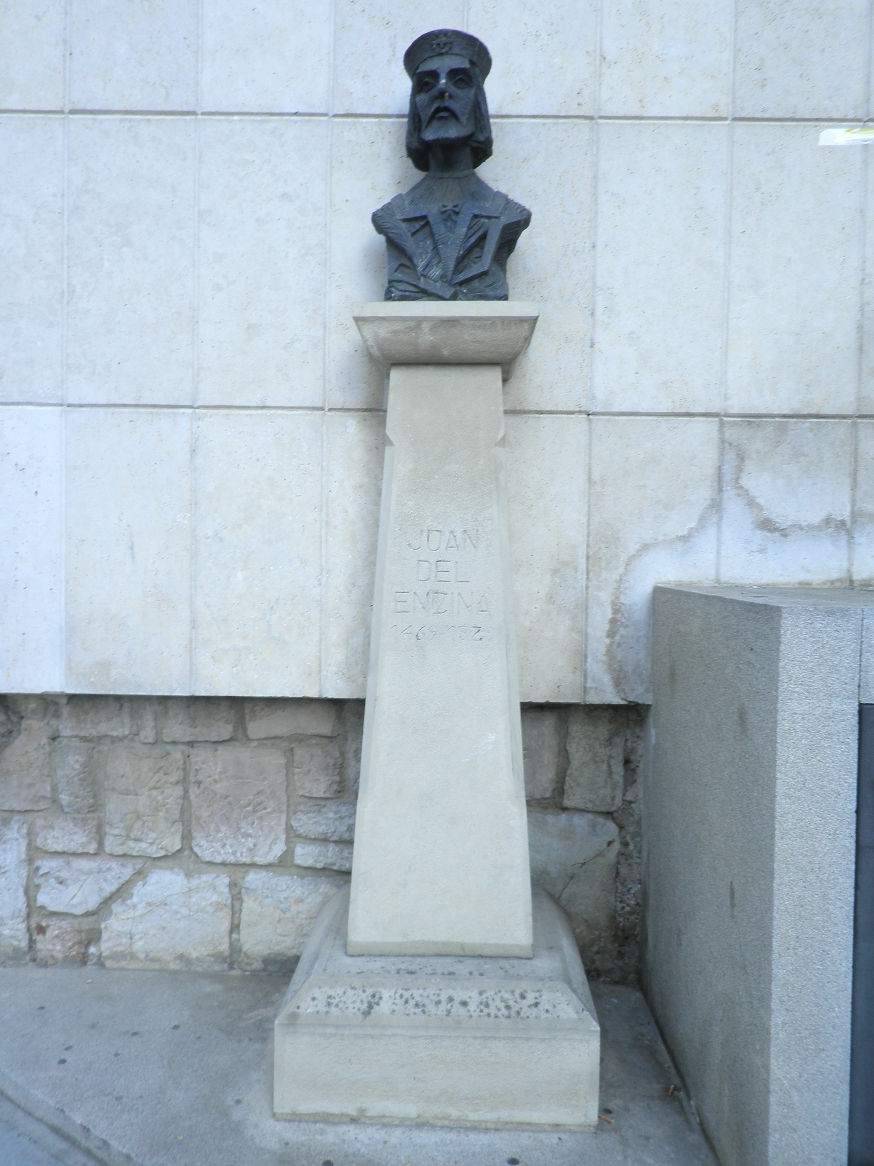 Juan del Encina bust in León